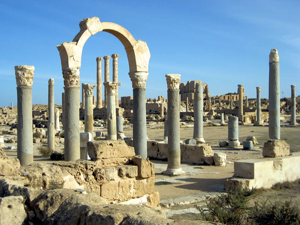 Ruins of a Byzantine basilica at Sabratha, west of Tripoli.